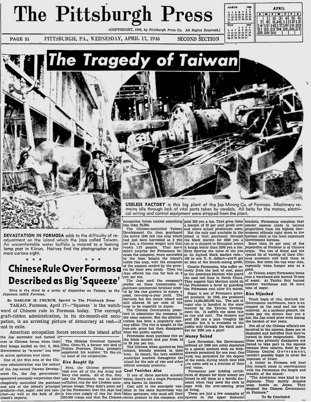 The Pittsburgh Press news report on post-World War II Taiwan